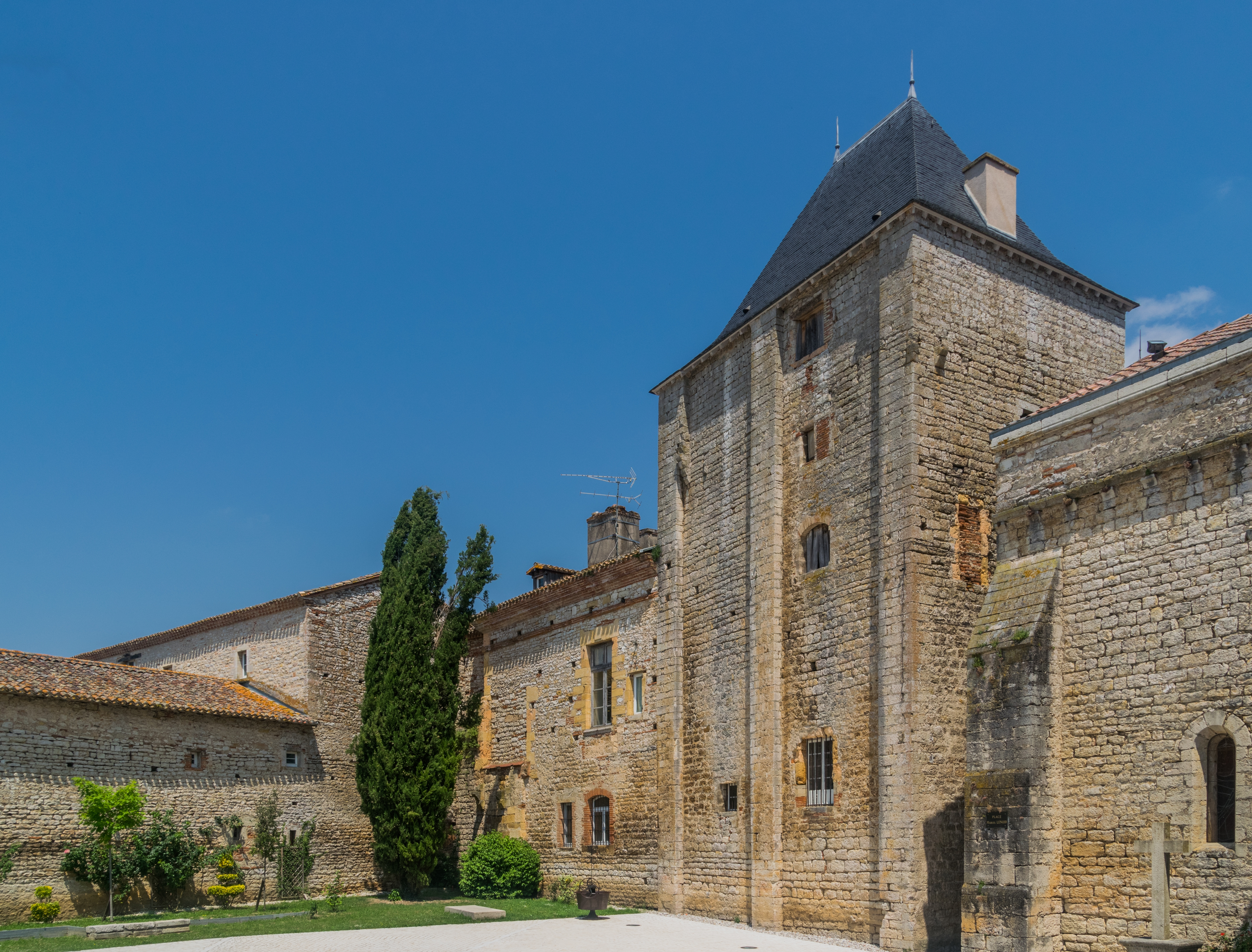 Castle of Montricoux, Tarn-et-Garonne, France